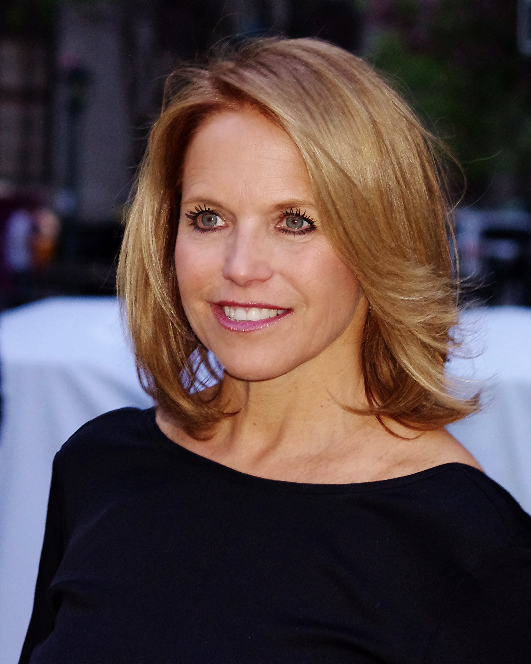 Katie Couric at the Vanity Fair party for the 2012 Tribeca Film Festival.